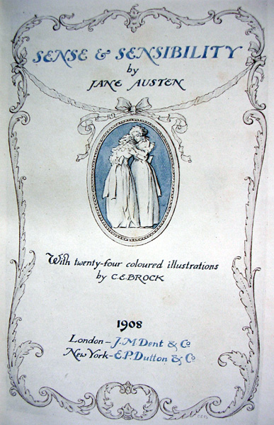 Title page of Sense and Sensibility, (Jane Austen's novel), illustrated by C. E. Brock (died 1938)